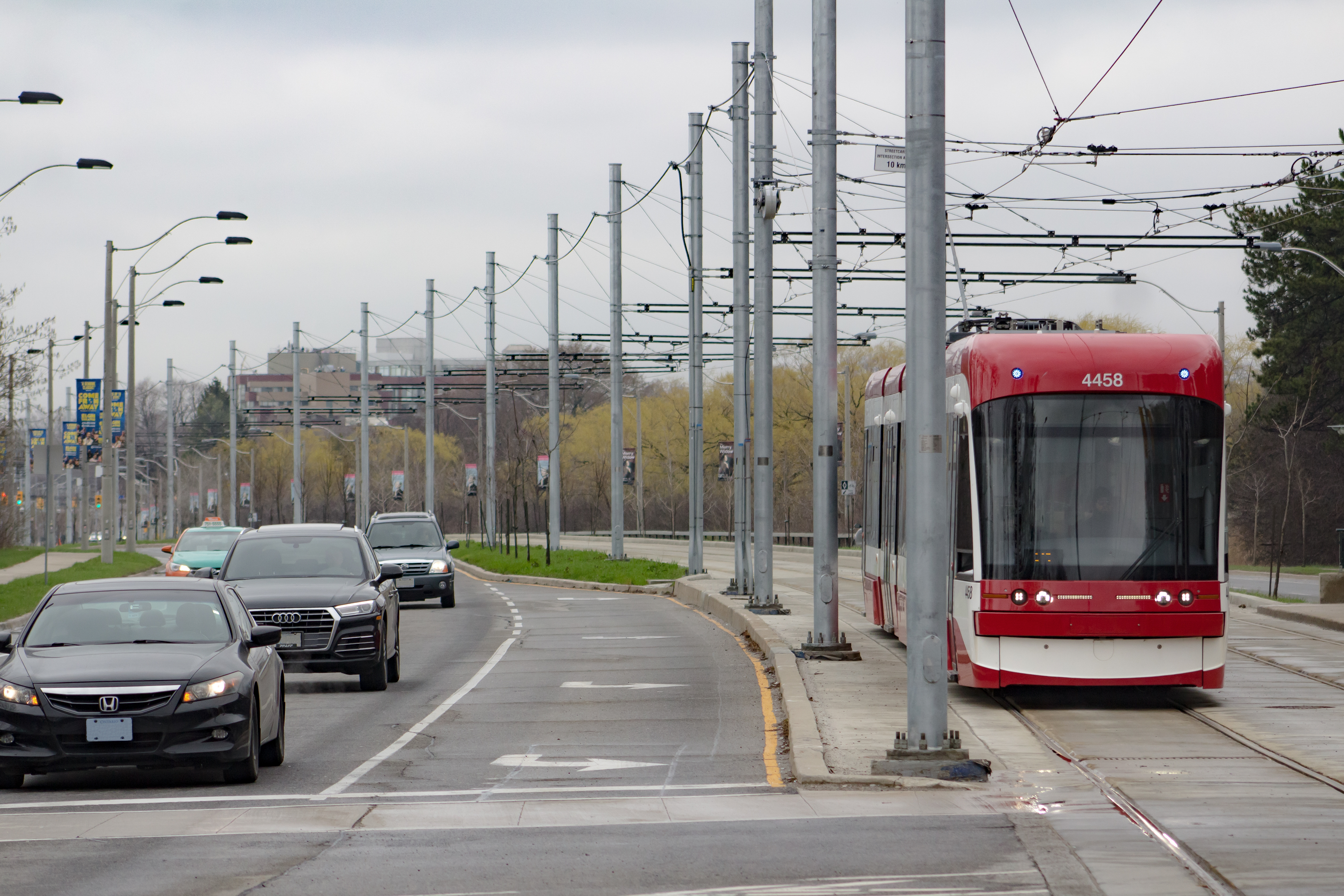 A look at the eastbound lane of The Queensway at Colborne Lodge Drive. Here the eastbound lane for vehicular traffic and the right-of-way lane for TTC streetcars is shown, with one of the newer Flexity Outlooks on the 501 Queen line on the ROW lane. This segment of the 501 Queen runs between the Humber Loop and the Neville Park loop (the other segment runs between the Humber Loop and the Long Branch Loop). This particular photograph was taken on the east side of Colborne Lodge Drive from the streetcar stop there.